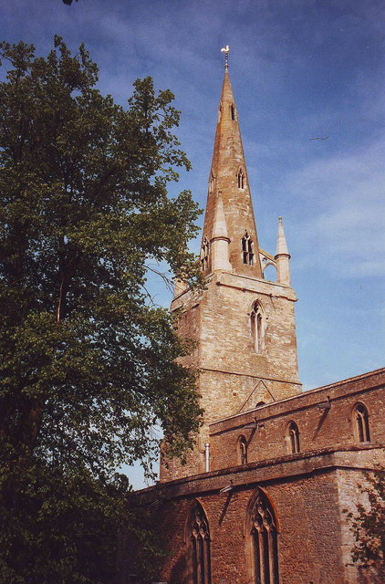 West tower and spire of the parish church of St Peter and All Saints, Harrold, Bedfordshire, seen from the southeast